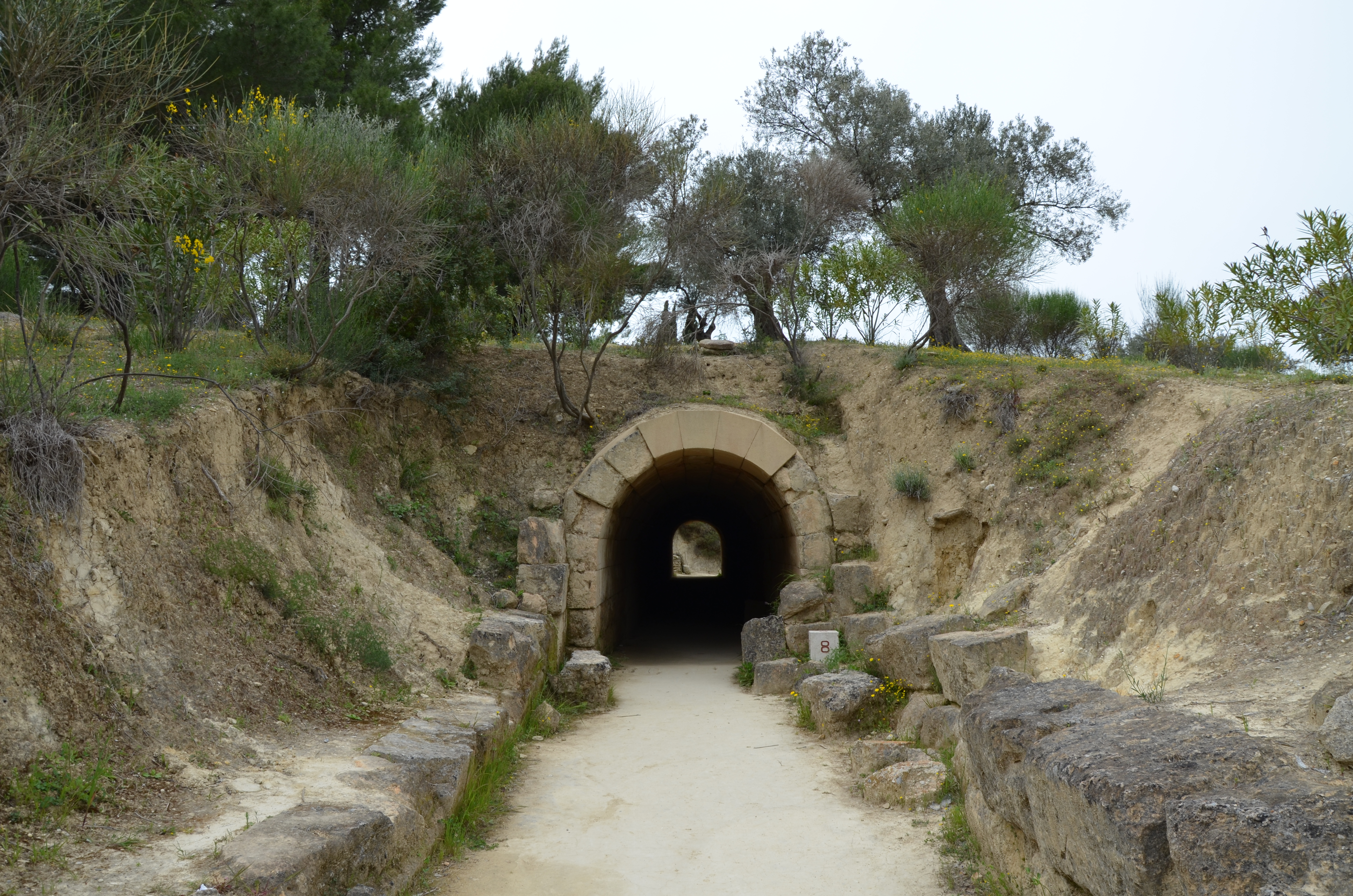 Vaulted entrance tunnel of the Ancient Stadium of Nemea, Ancient Nemea, Greece